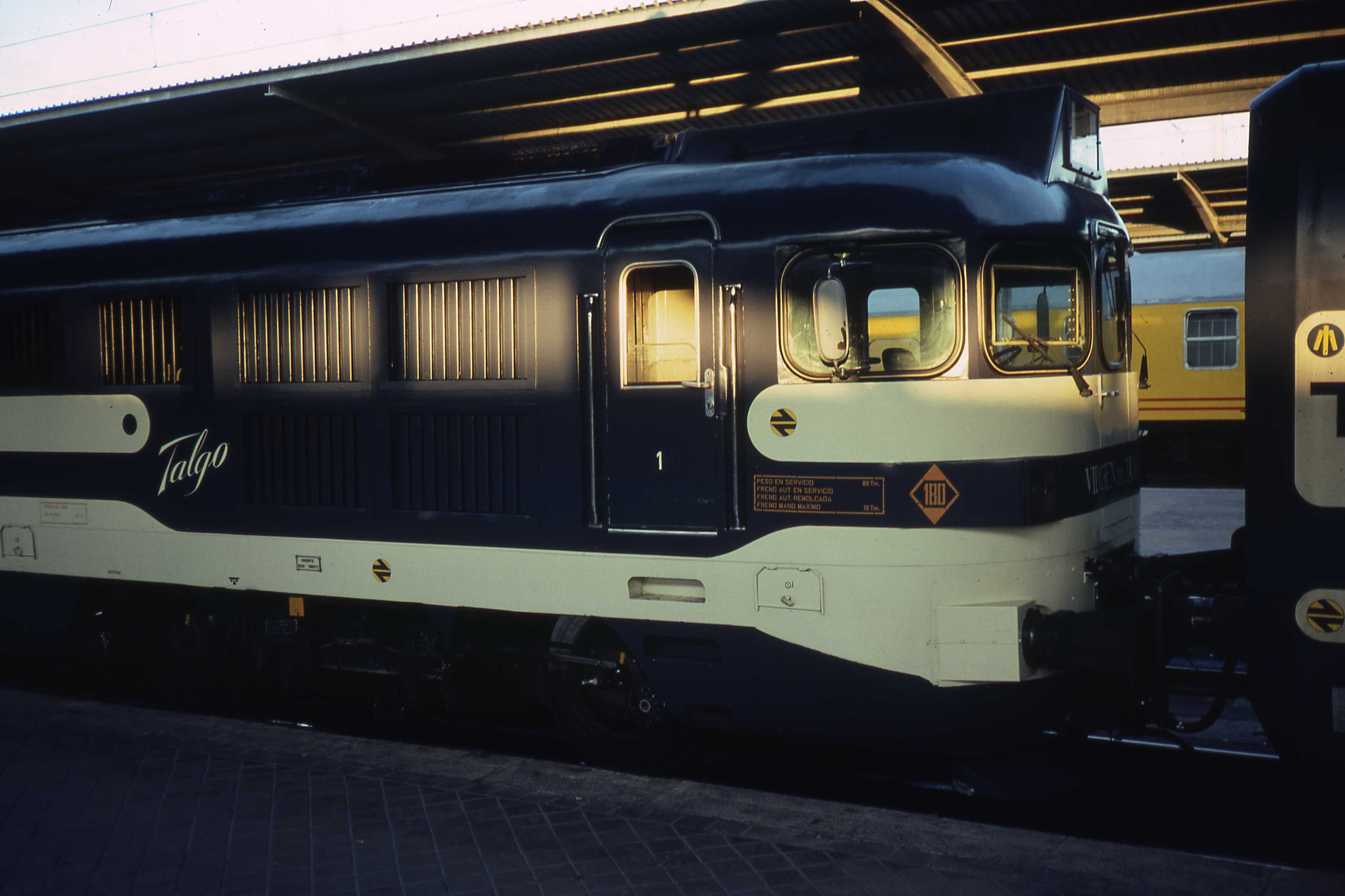 Talgo locomotief in Chamartin station in 1981